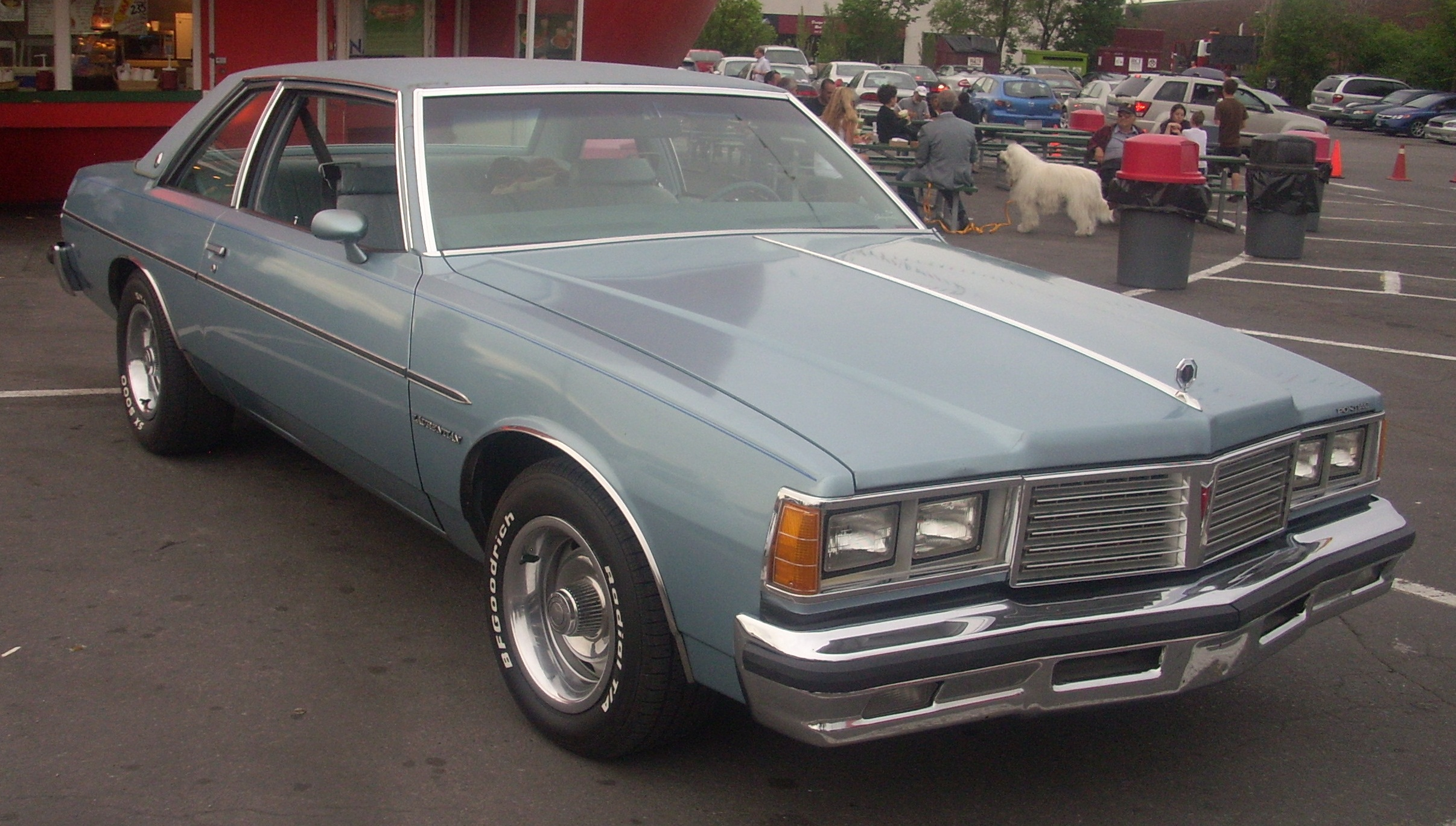 1978 Pontiac Laurentian photographed in Montreal, Quebec, Canada at Gibeau Orange Julep.